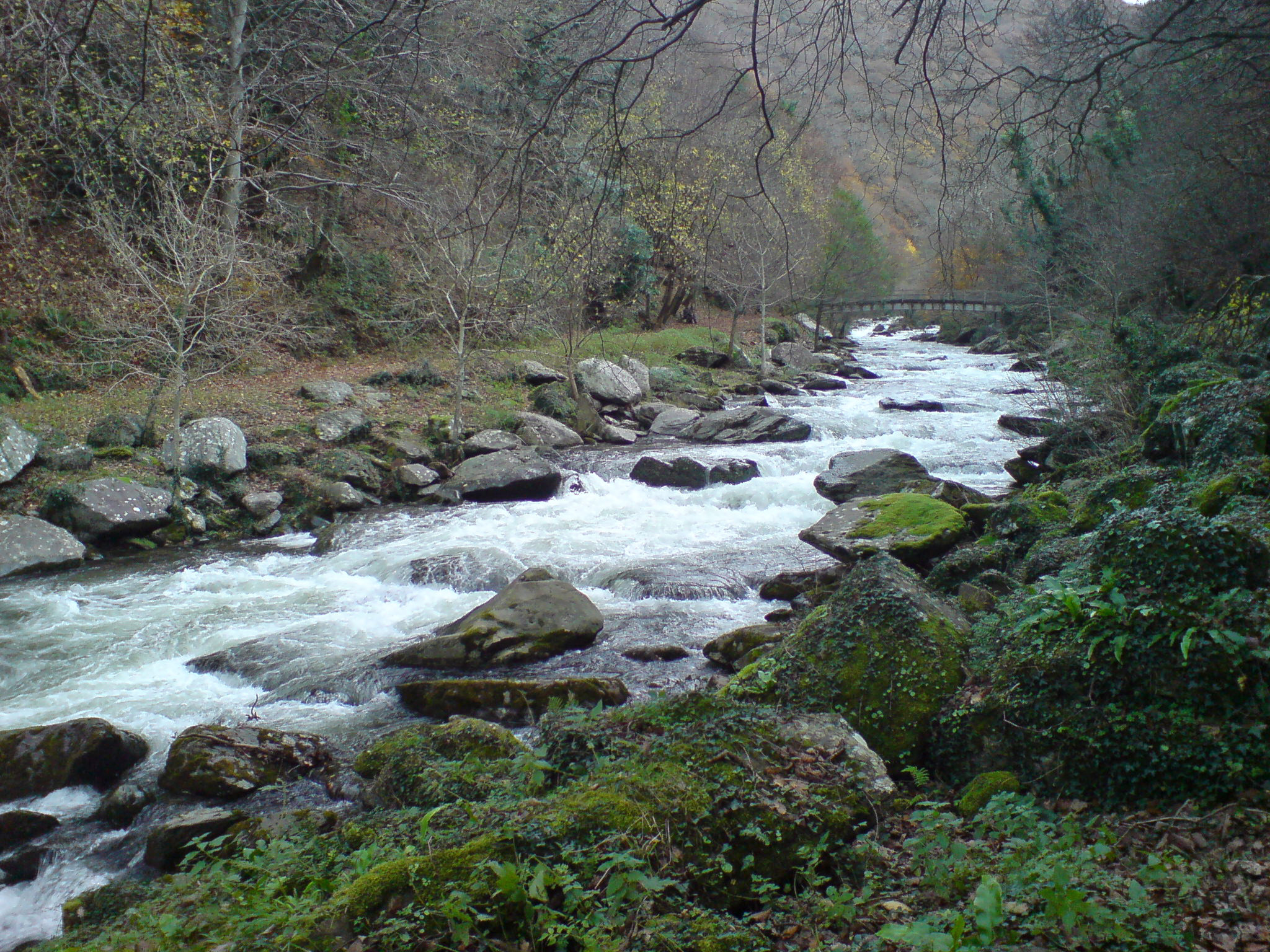 Author: Jamsta